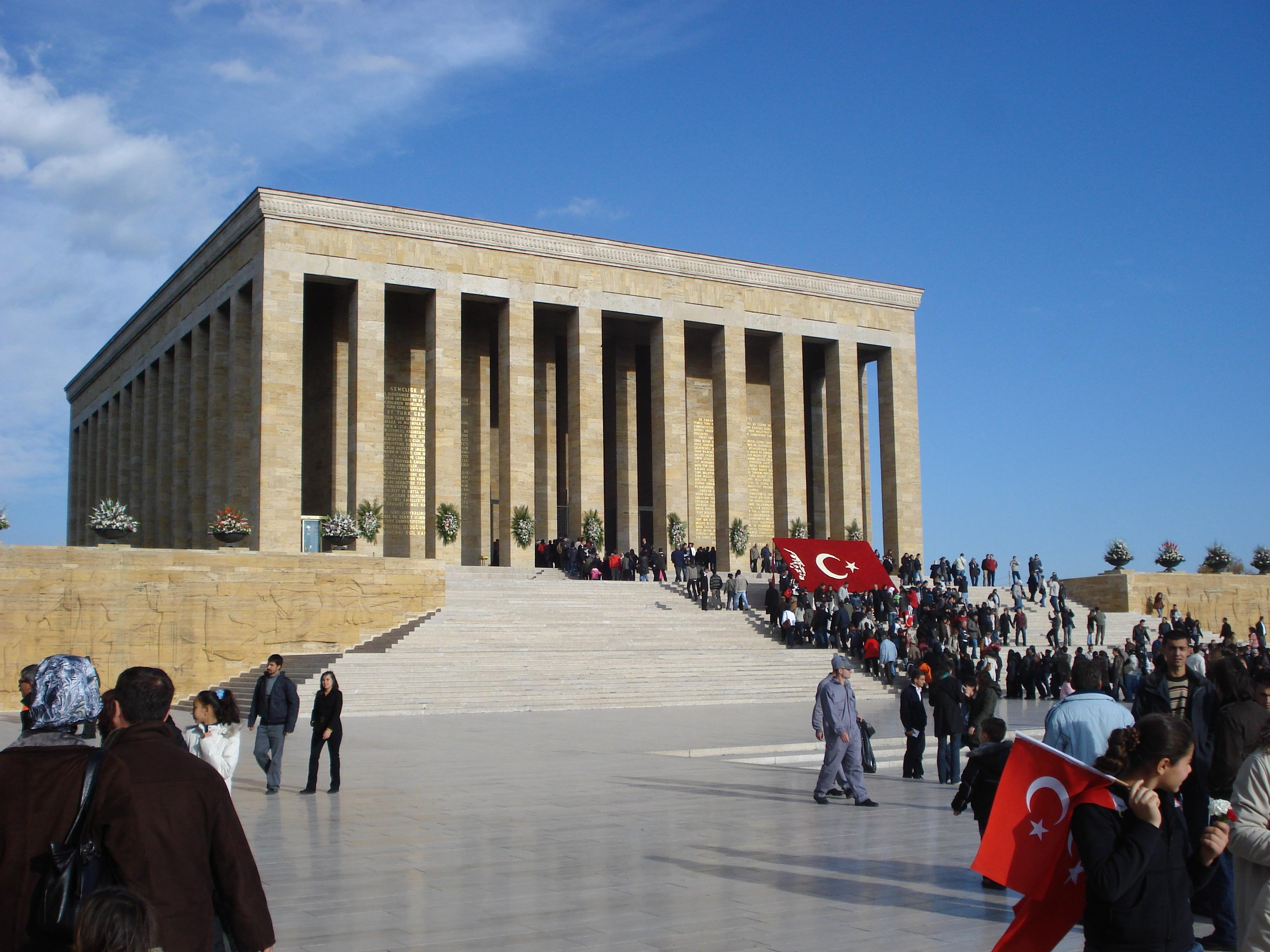 Ataturk mausoleum